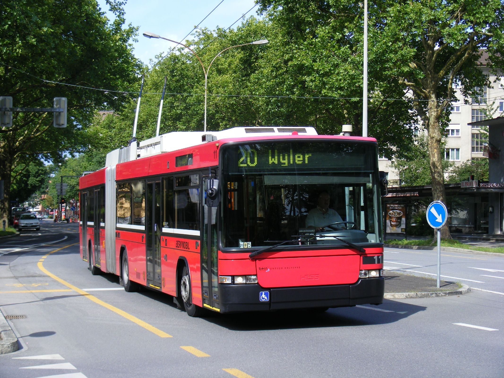 Bern trolleybus no. 11 to Wyler, line 20.